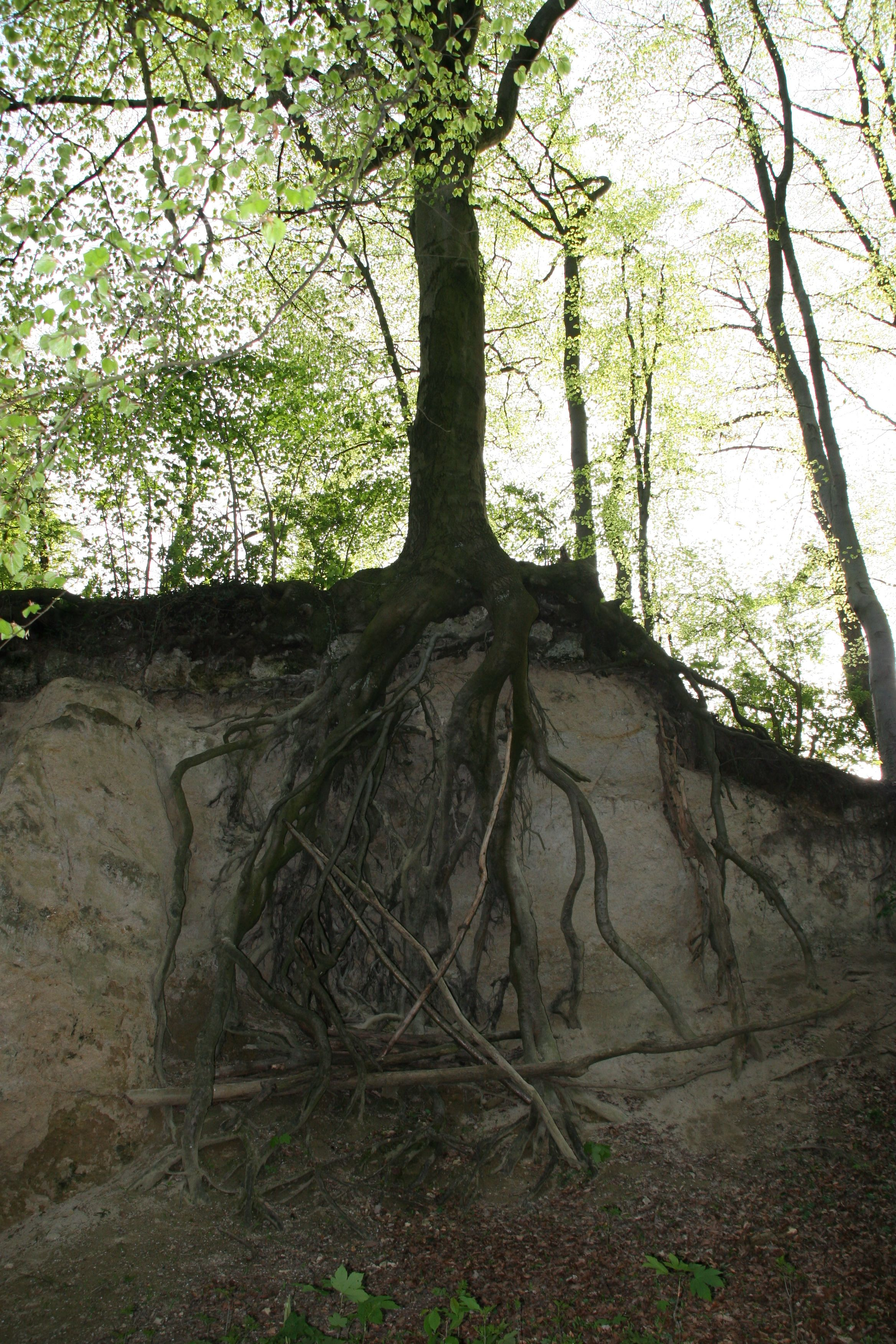 Belm: old marl-mine